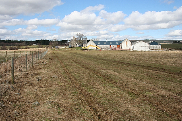 Binhall Farm It is good to see a steading in such good repair these days. In fact it was in a ruinous state and has been restored over recent years.